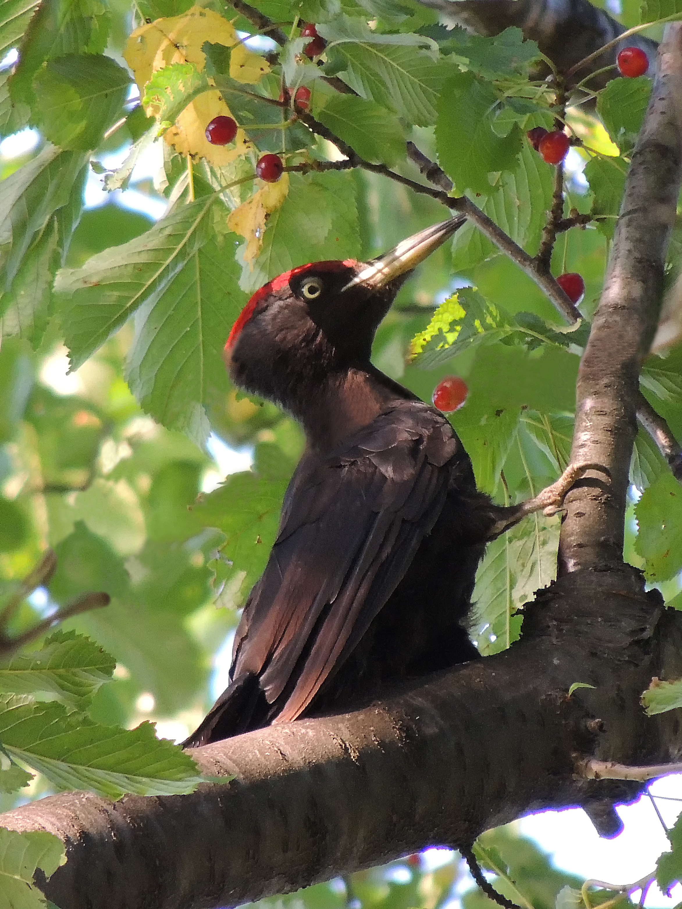 Black Woodpecker (Dryocopus martius). Photographed on Fruska Gora next to the Vila Ravno. There is a lookout and a huge cherry tree that feeds the countless birds, squirrels and other critters. The photo was taken Nikon COOLPIX P510 camera, 1/80, f / / 5,9 ISO800, with 1000mm (35mm focal length) of the hand. Ово је фотографија заштићеног природног добра у Србији под шифром: НП01 This is a a photo of a natural area in Serbia with ID: НП01